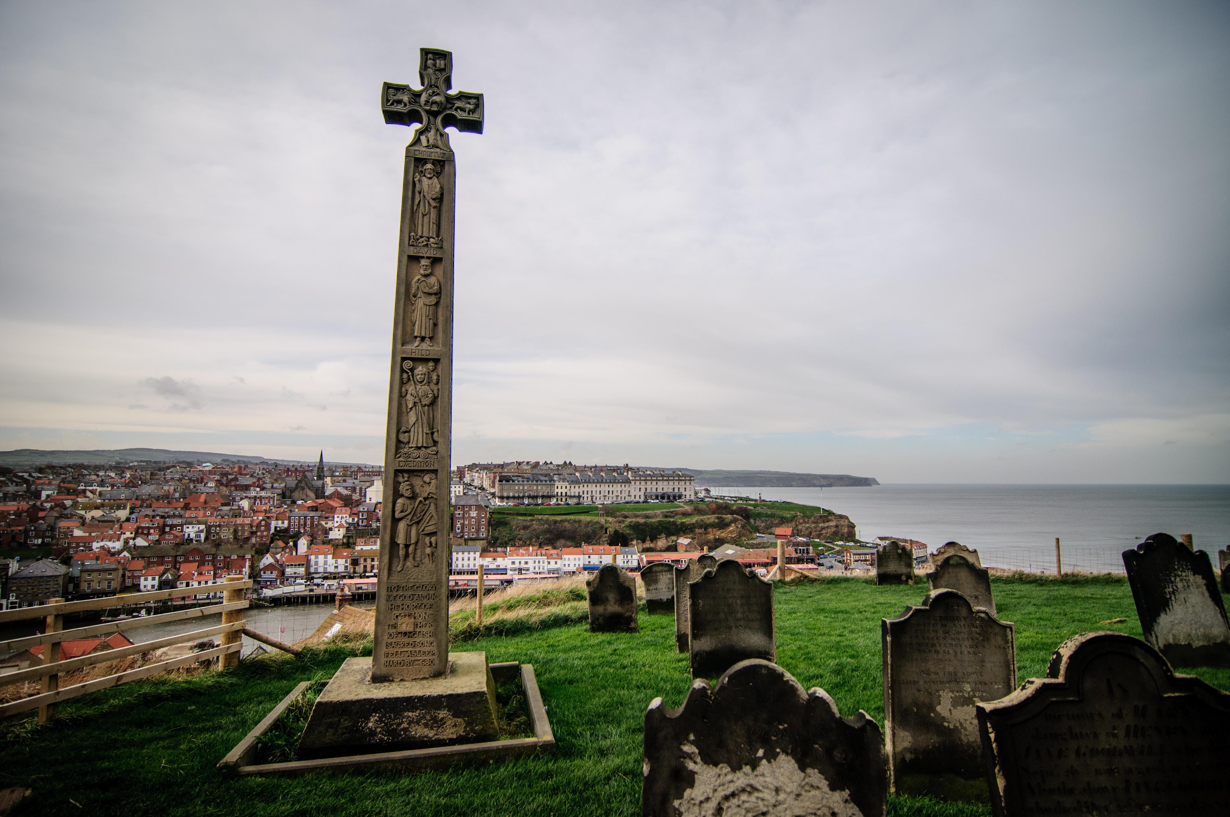 Nikon D300 with Tokina AT-X Pro SD 12-24mm F4 (IF) DX